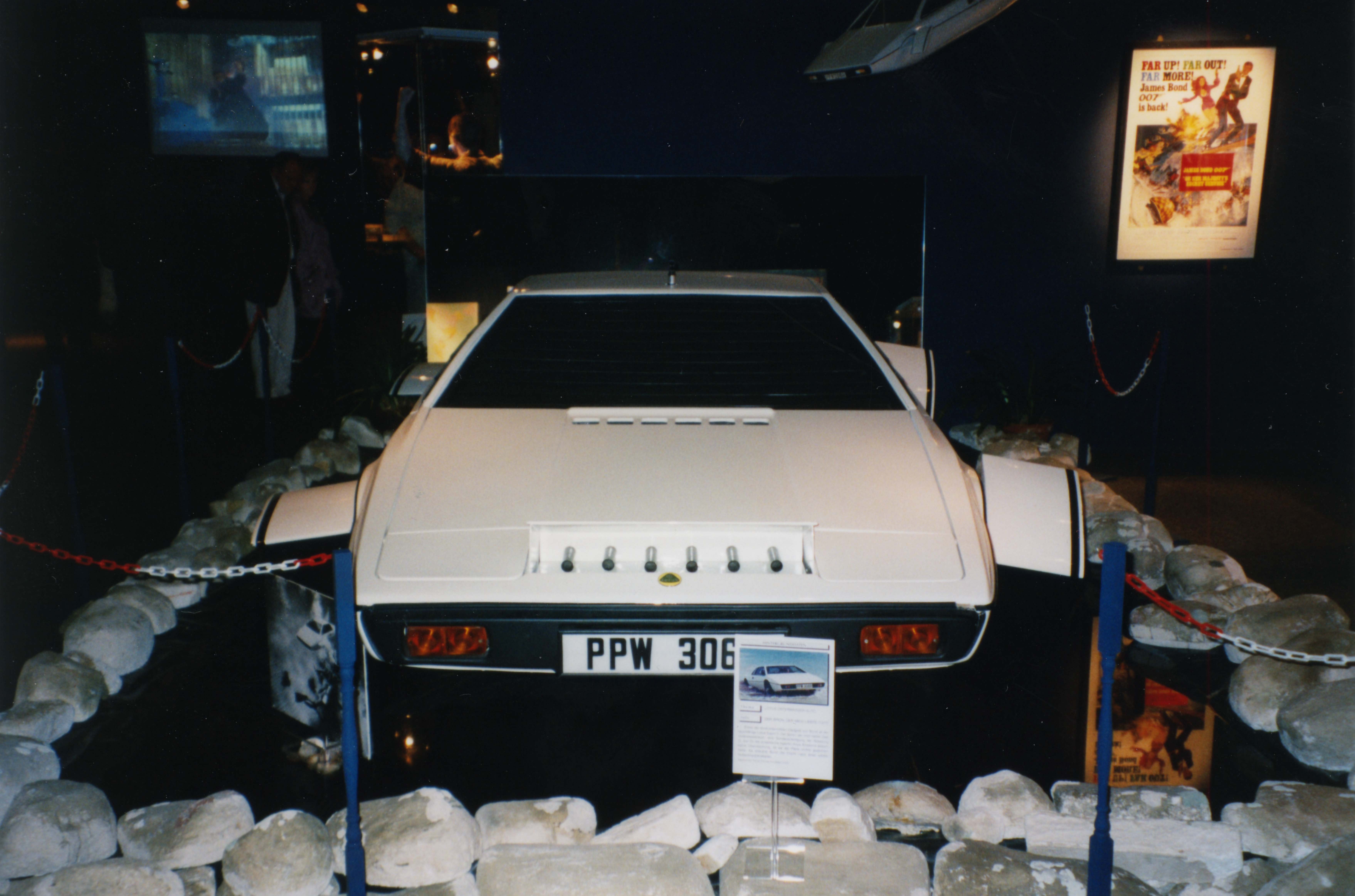 Lotus Esprit "Wet Nellie" (PPW 306R) from James Bond Movie "The Spy Who Loved Me",1977 at a 1998 exhibition.